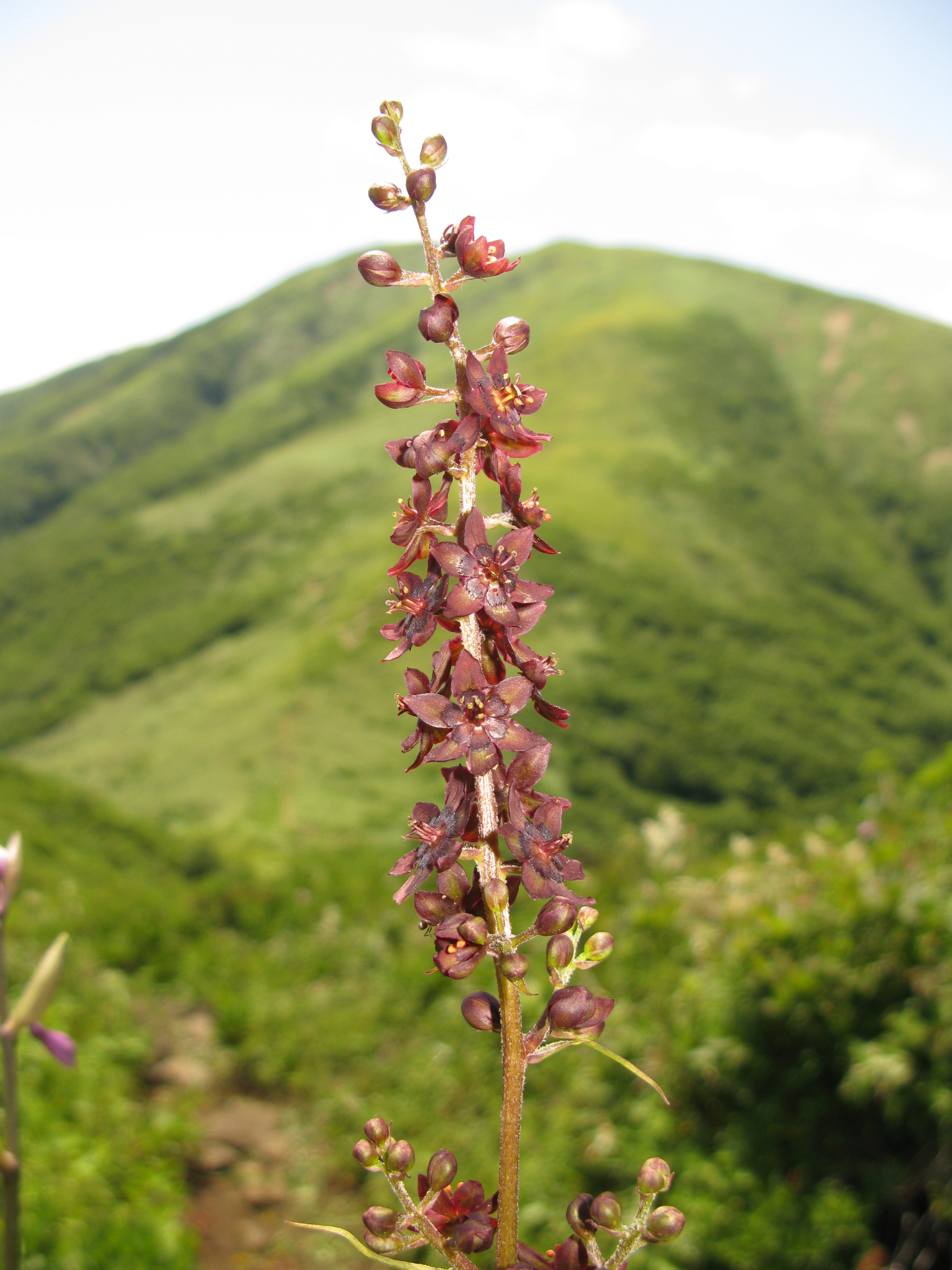 Veratrum maackii var. japonicum,Aizu area,Fukushima pref.,Japan